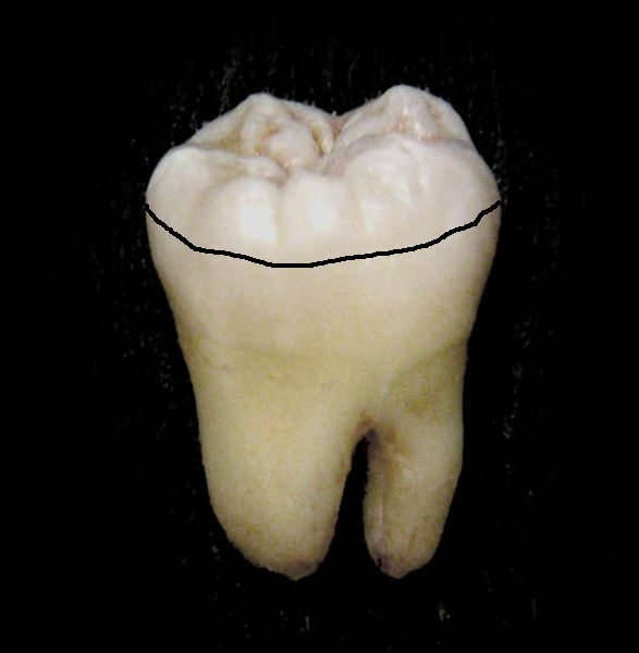 Tooth equator